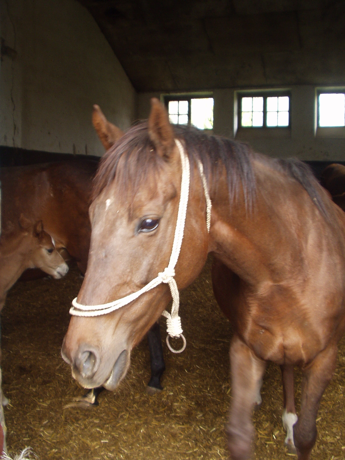 Horse of Zobnatica: The horse farm of Zobnatica and its tradition in horse-breeding is over 225 years old. Nowadays, the horse farm with its two stables for hurdle and gallop race horses breeds English thoroughbred and half-breed horses.